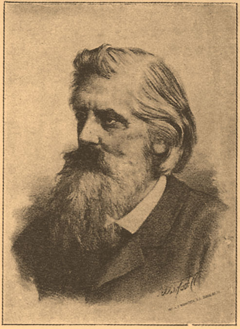 Illustration from Brockhaus and Efron Encyclopedic Dictionary (1890—1907)